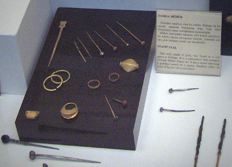 Golden ornaments, found at Kültepe; Period of the Assyrian Trade Colonies; 1950-1750 BC; Museum of Anatolian Civilizations, Ankara, Turkey.According to the label, the stamp seal is: gold, Early Hittite Period art, and shows a goddess, etc. (grave from Kultepe)